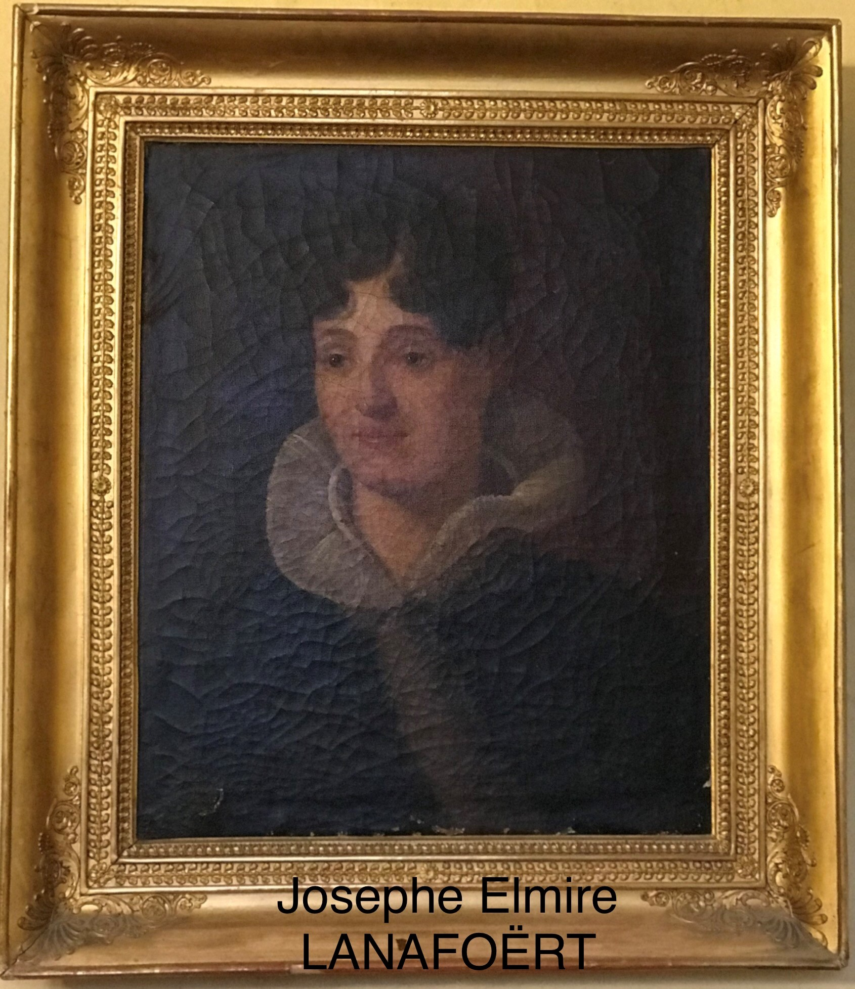 Elmire Lanafoërt, héritíere Lanafoërt, fille de Louis Lanafoërt, épouse de Jean François Doat, Maire de Plaisance, Conseiller Général du Gers.